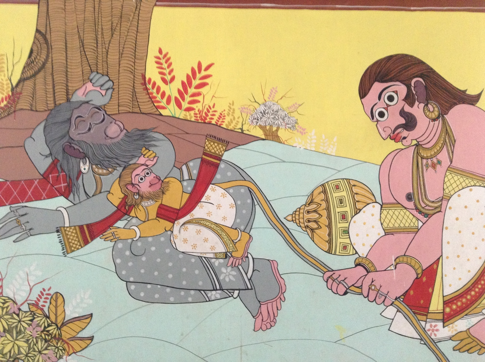 Krishna museum